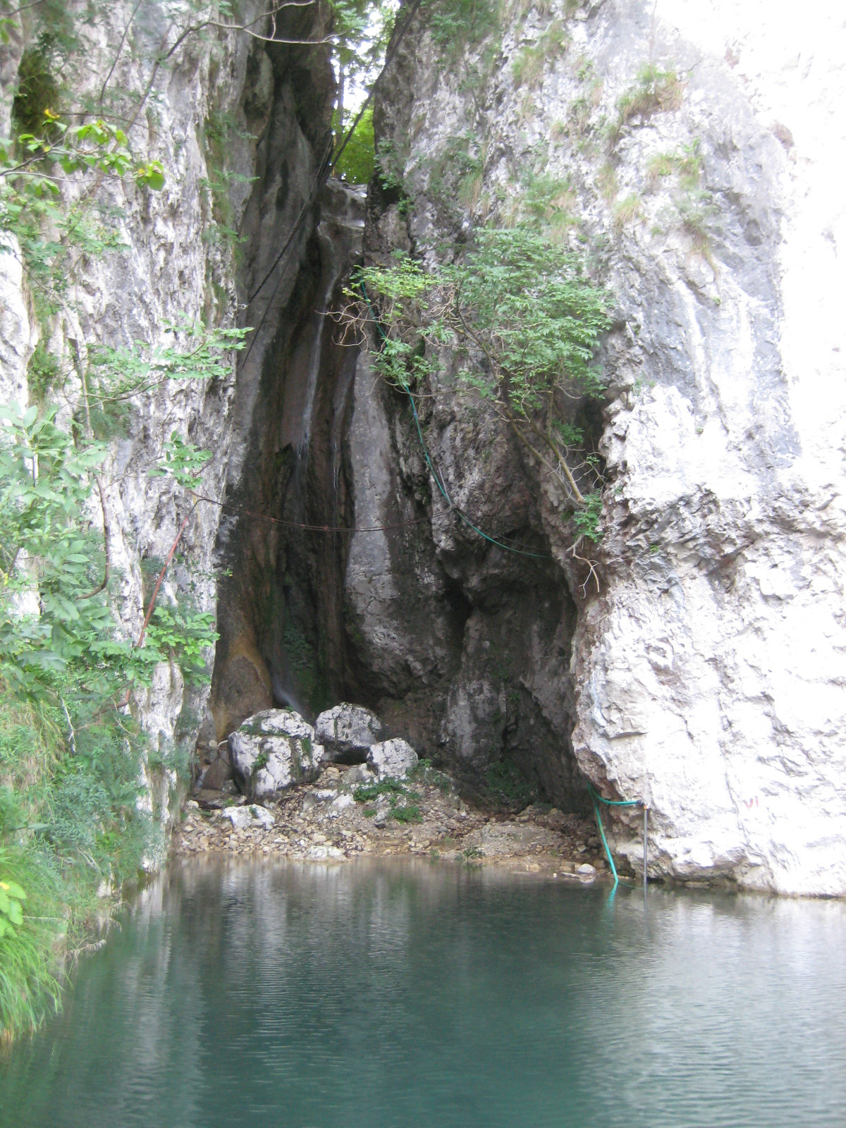 Bohinjska Bela, village in Slovenia. Waterfall "Iglica".